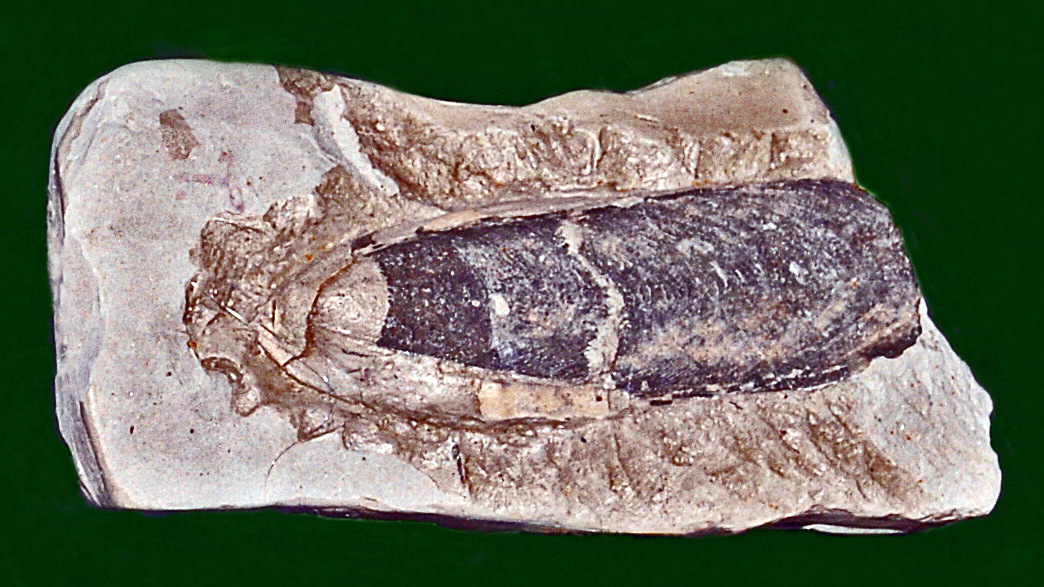 Fossil cuttlebone of Sepia stricta, on display at the Museo Civico Craveri di Scienze Naturali - Bra